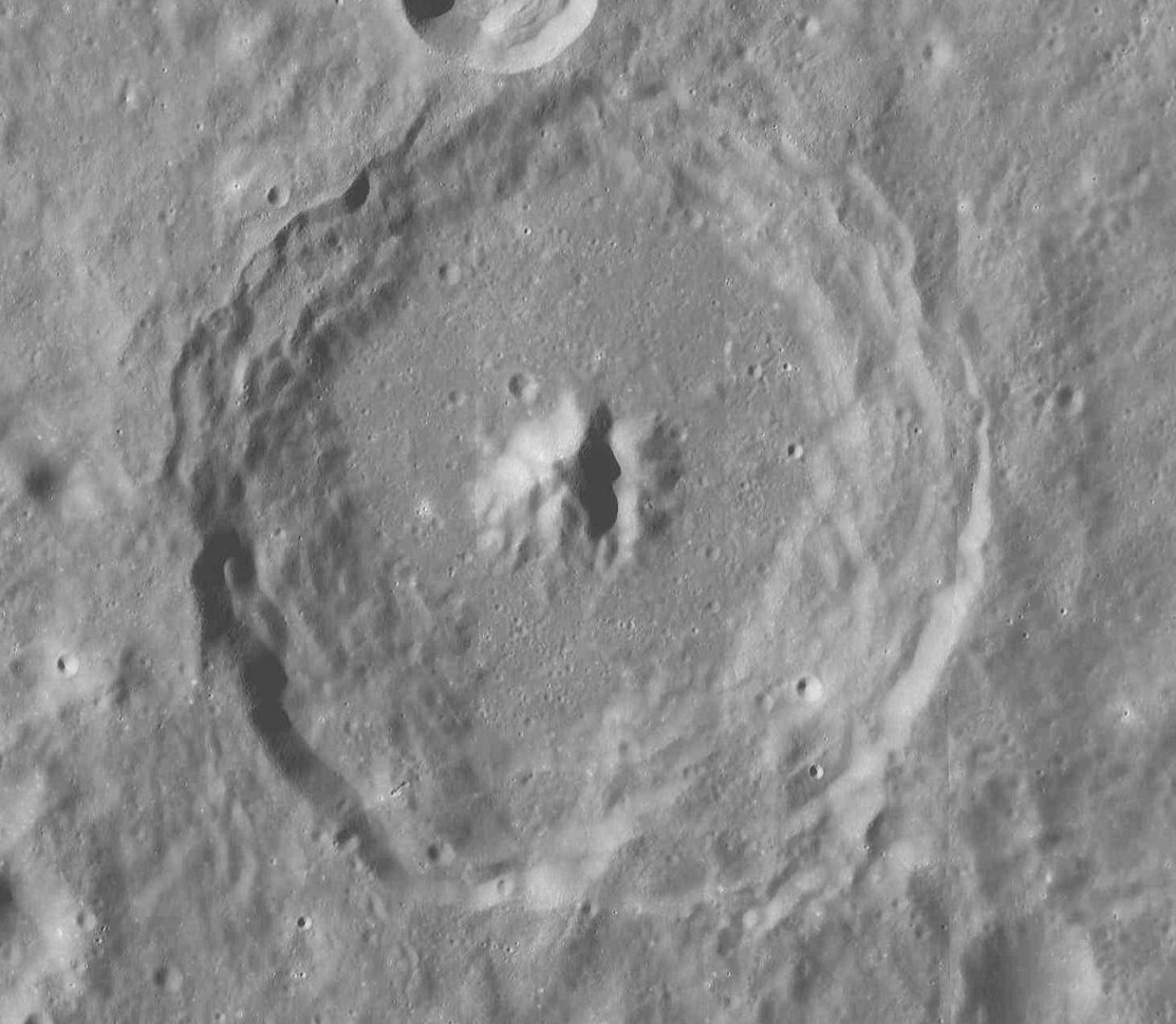 Crater Piccolomini (detail of LRO - WAC global moon mosaic; Mercator projection)